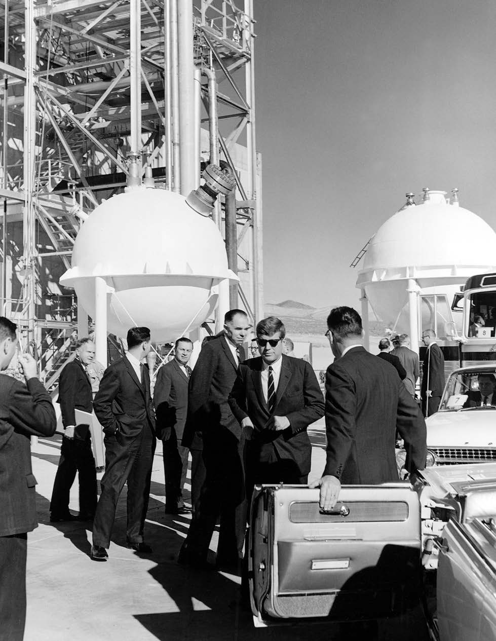 Nevada Test Site - Nuclear Rocket Development Station. President John F. Kennedy departs from the Nuclear Rocket Development Station, after a brief inspection visit on December 8, 1962. At the President's left are: Dr. Glenn T. Seaborg, Chairman of the U.S. Atomic Energy Commission; Senator Howard Cannon, (D-NV); Harold B. Finger, Manager of the Space Nuclear Propulsion Office; and Dr. Alvin C. Graves, Director of test activities for the Los Alamos Scientific Laboratory.